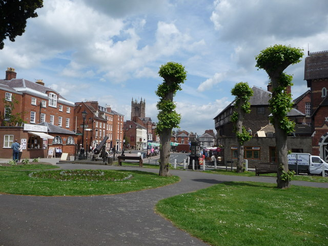 Castle Square, Ludlow A great spot for a sandwich at lunchtimes in summer. Ludlow Festival box office is on the left under the awning.